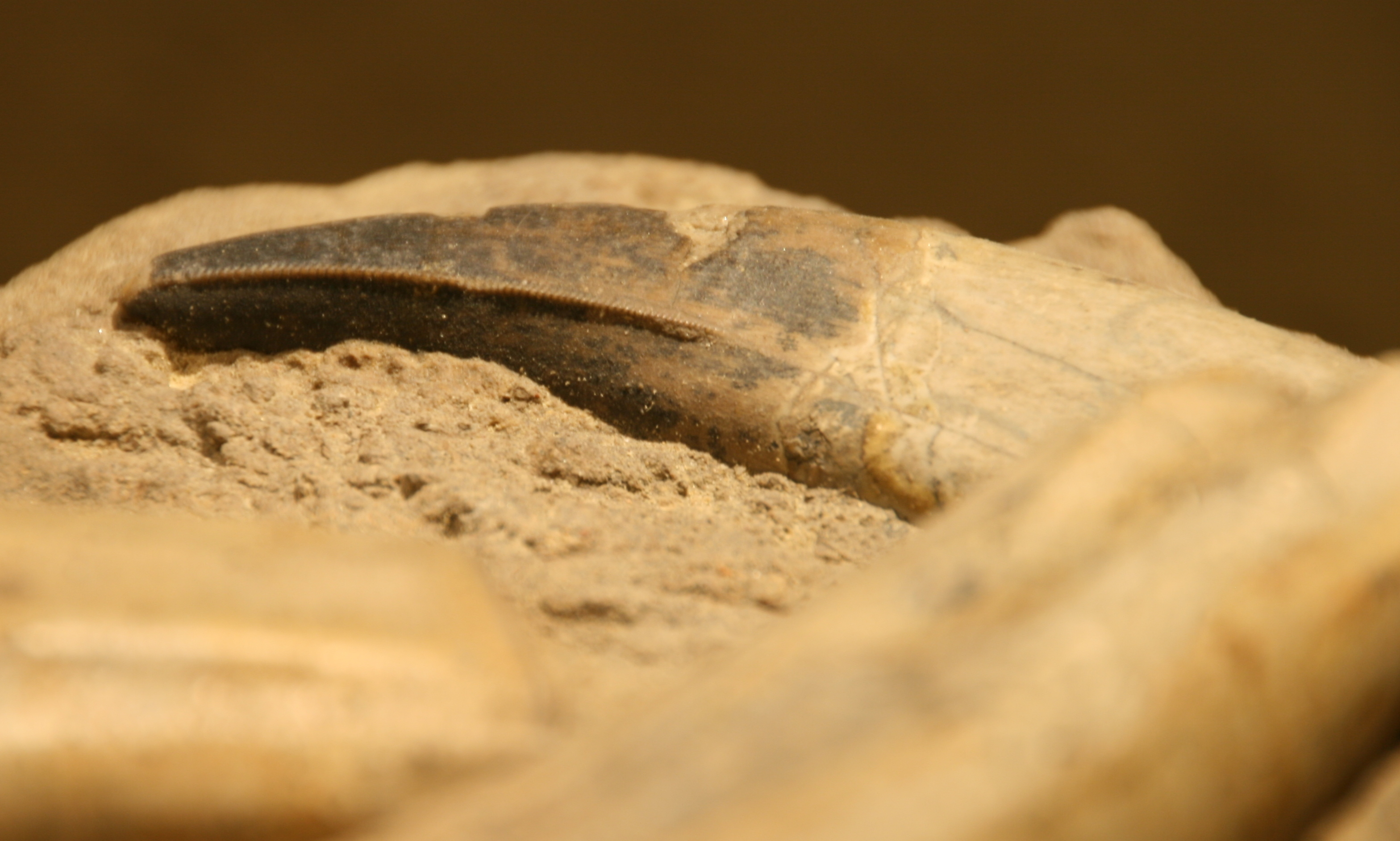 Tarbosaurus bataar teeth. 72 millions of years. Bugin Tsav, spouth-western Gobi, Mongolia. Mongolian Academy of Sciences, 1964 Reg. No. MPC-D100/6